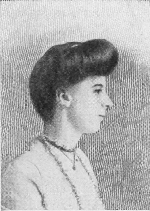 Author Margery Williams